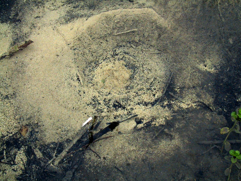 Dzerve-Berzini springs in Western Latvia, taken by me on 22nd October 2000